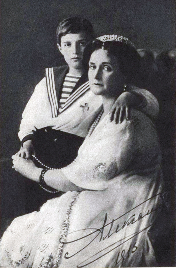 Tsarevich Alexei Nikolaevich